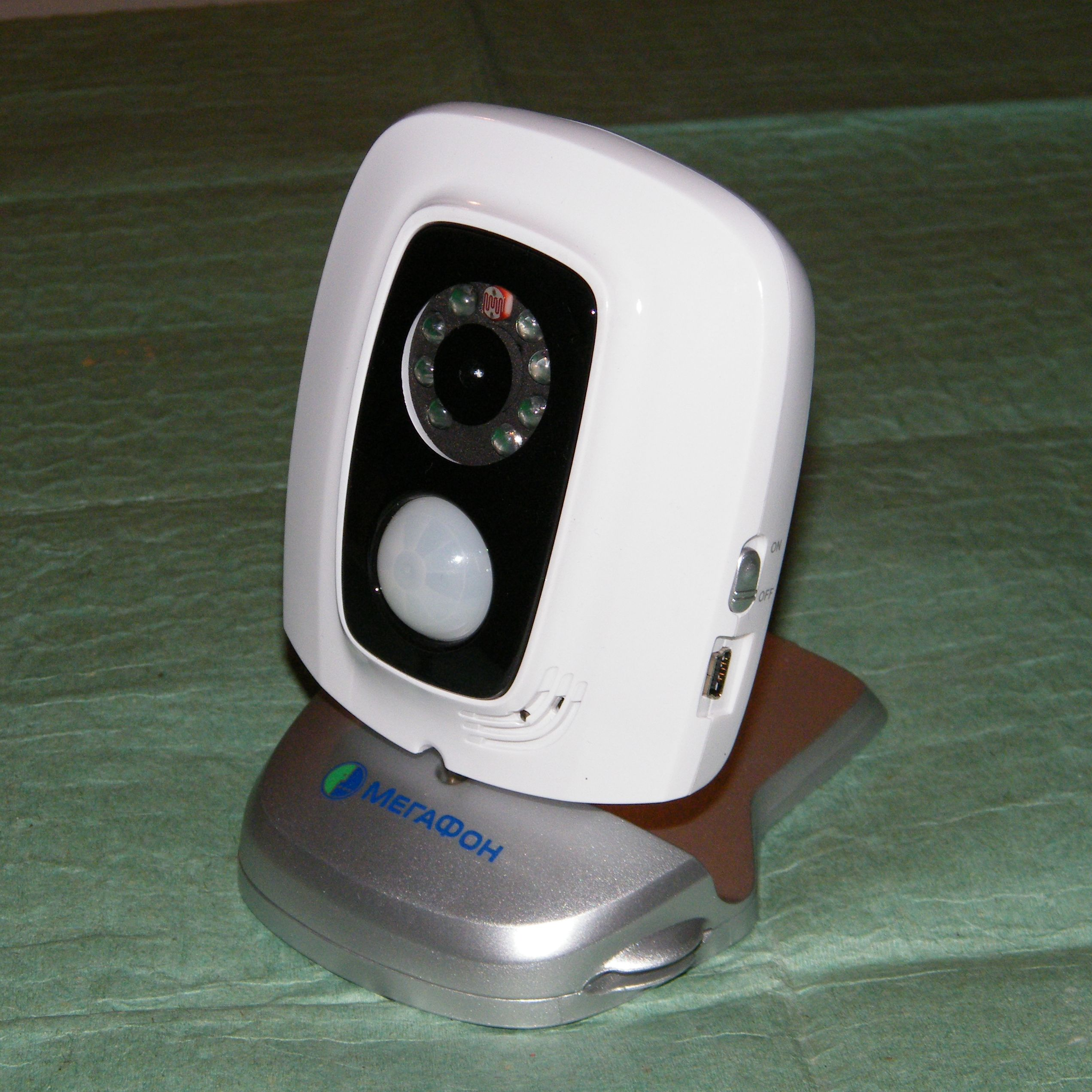 MMS-camera MegaFon V900